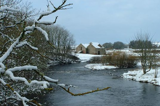 Thurso River from Bridge at Halkirk. The Thurso River is very well known as a Salmon fishing river. Old mill in distance.